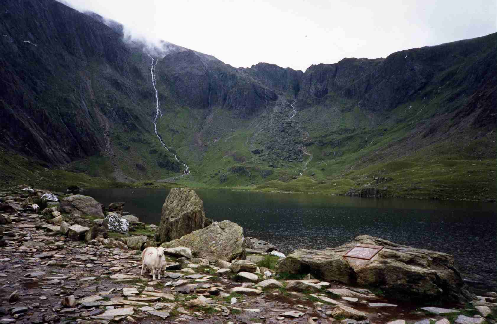 Personal picture taken by Mick Knapton